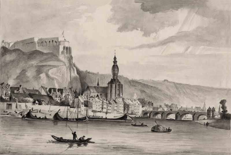 Vue de Dinant, 21 x 31,5 cm